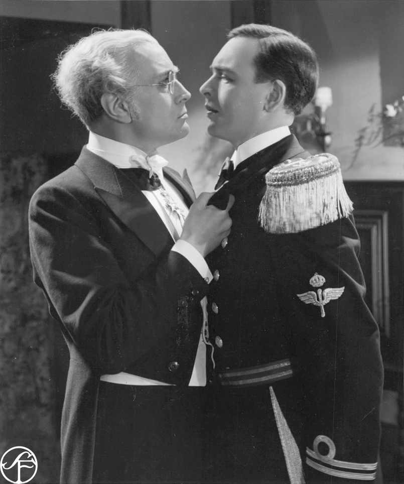 Gösta Ekman and Håkan Westergren in a scene from the film "Swedenhielms", 1935.